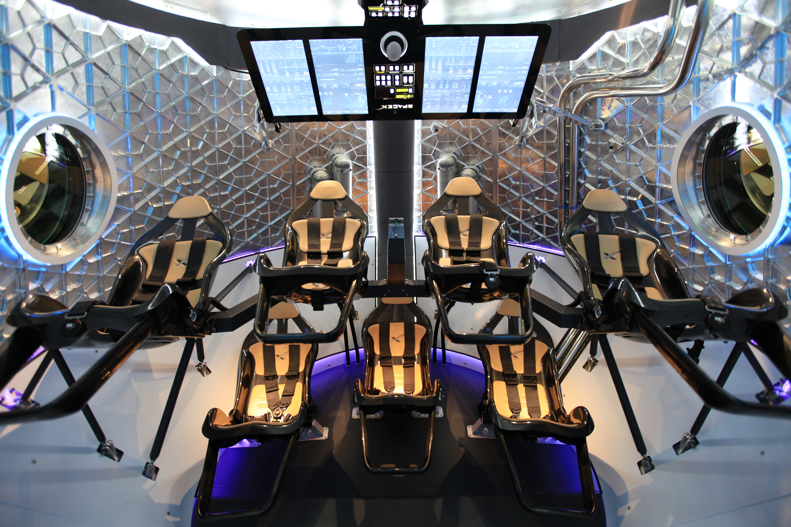 HAWTHORNE, Calif. - A look through the open hatch of the Dragon V2 reveals the layout and interior of the seven-crew capacity spacecraft. SpaceX unveiled the new spacecraft during a ceremony at its headquarters in Hawthorne, Calif. The Dragon V2 is designed to carry people into Earth's orbit and was developed in partnership with NASA's Commercial Crew Program under the Commercial Crew Integrated Capability agreement. SpaceX is one of NASA's commercial partners working to develop a new generation of U.S. spacecraft and rockets capable of transporting humans to and from Earth's orbit from American soil. Ultimately, NASA intends to use such commercial systems to fly U.S. astronauts to and from the International Space Station.